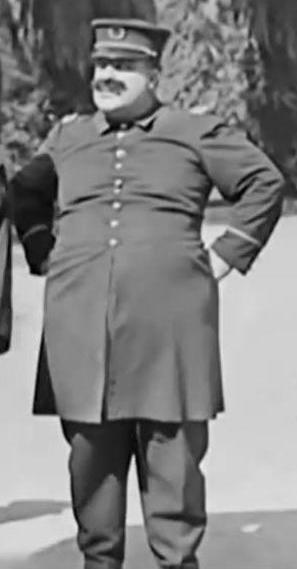 William Hauber in Frauds and Frenzies (1918).